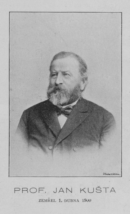 Portrait of Jan Kušta (1845-1900), Czech high-school teacher, geologist and paleontologist.